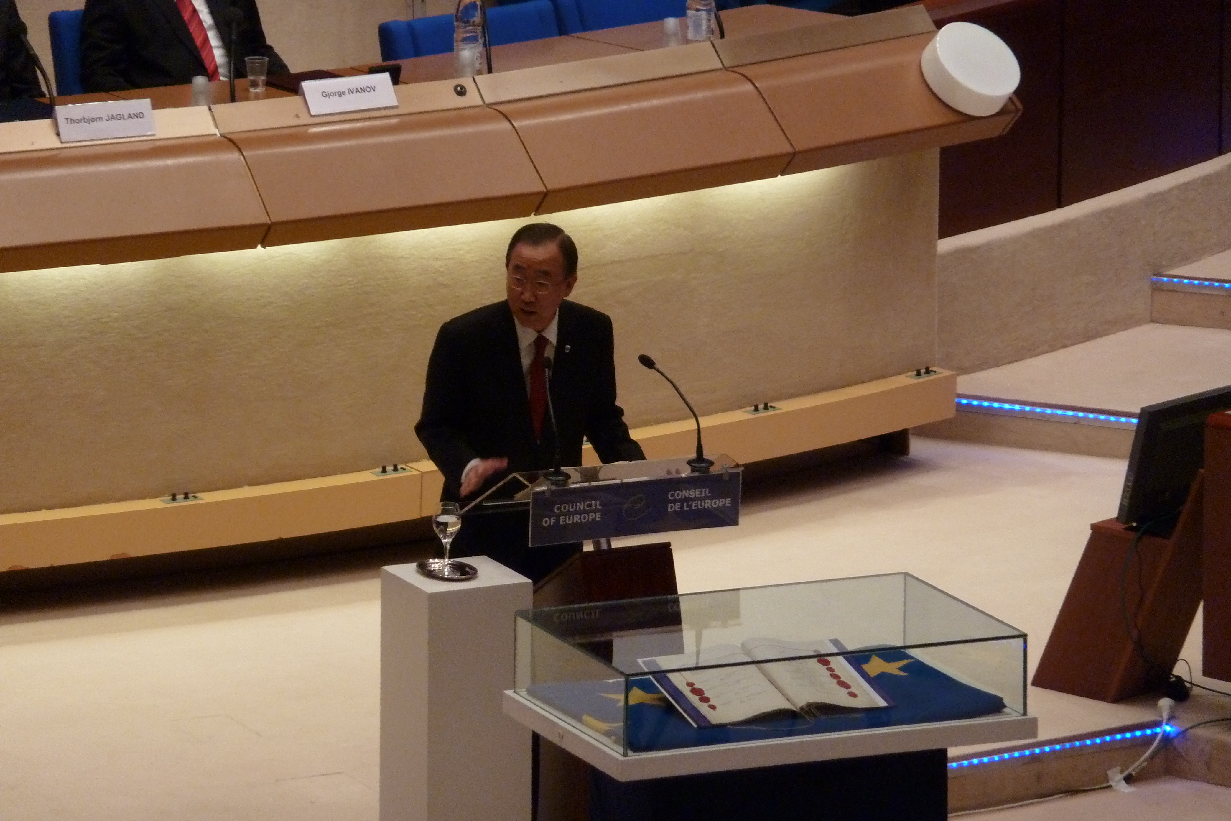 Ban Ki-moon at the 60th anniversary of the European Convention of Human Rights at the Council of Europe in Strasbourg